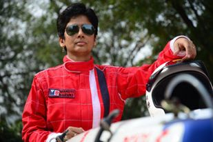 Bani Yadav is a highly decorated Indian motorsports champion.